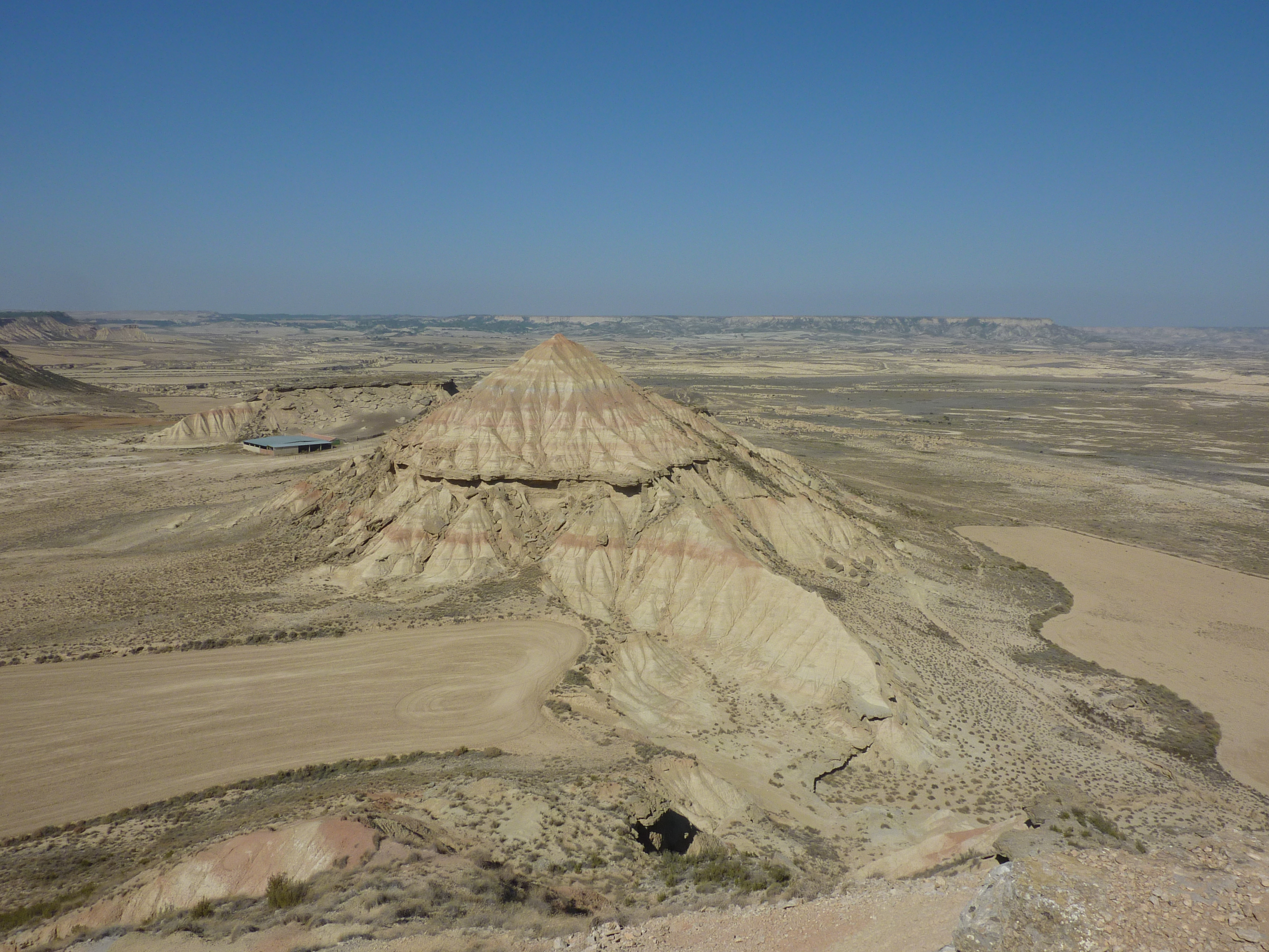 View of the White Bardena, Navarre, Spain